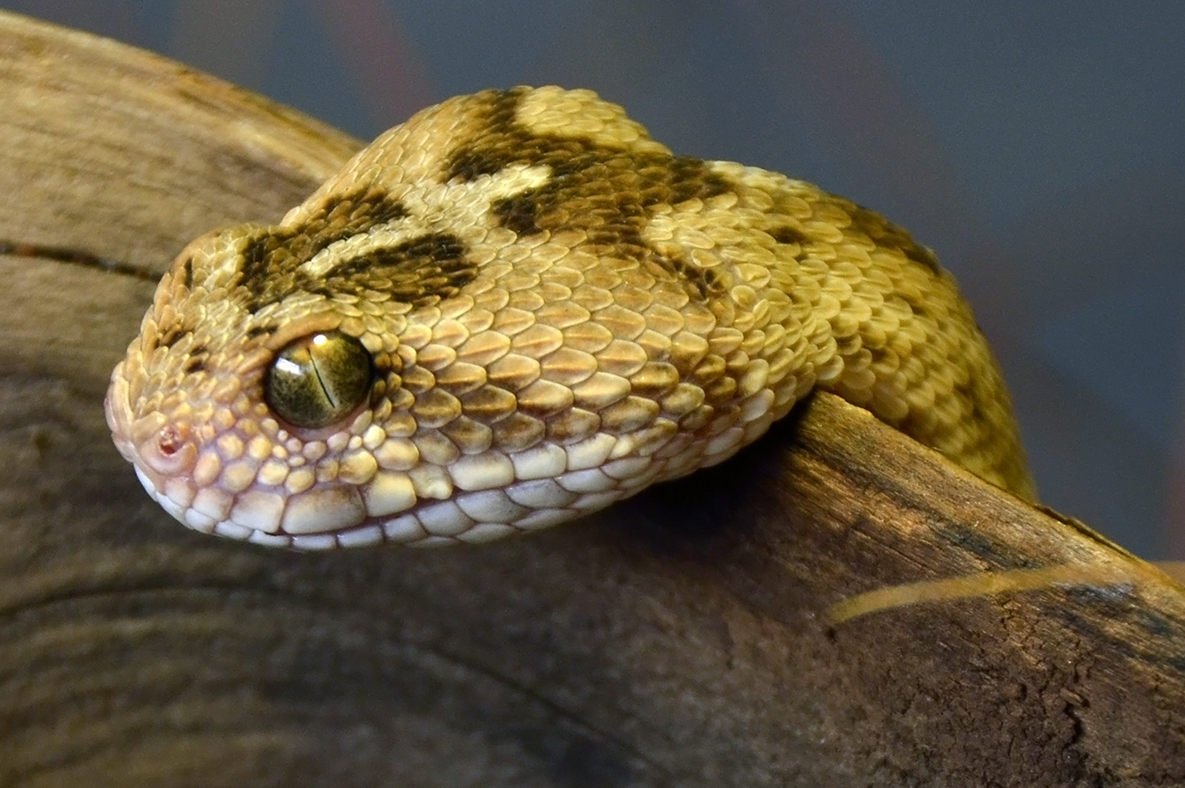 Saw-scaled viper ( Echis carinatus ). Exhibition organized by Reptiles du Monde in Palexpo, Geneva, from the 27th of September to the 2d of November 2014.